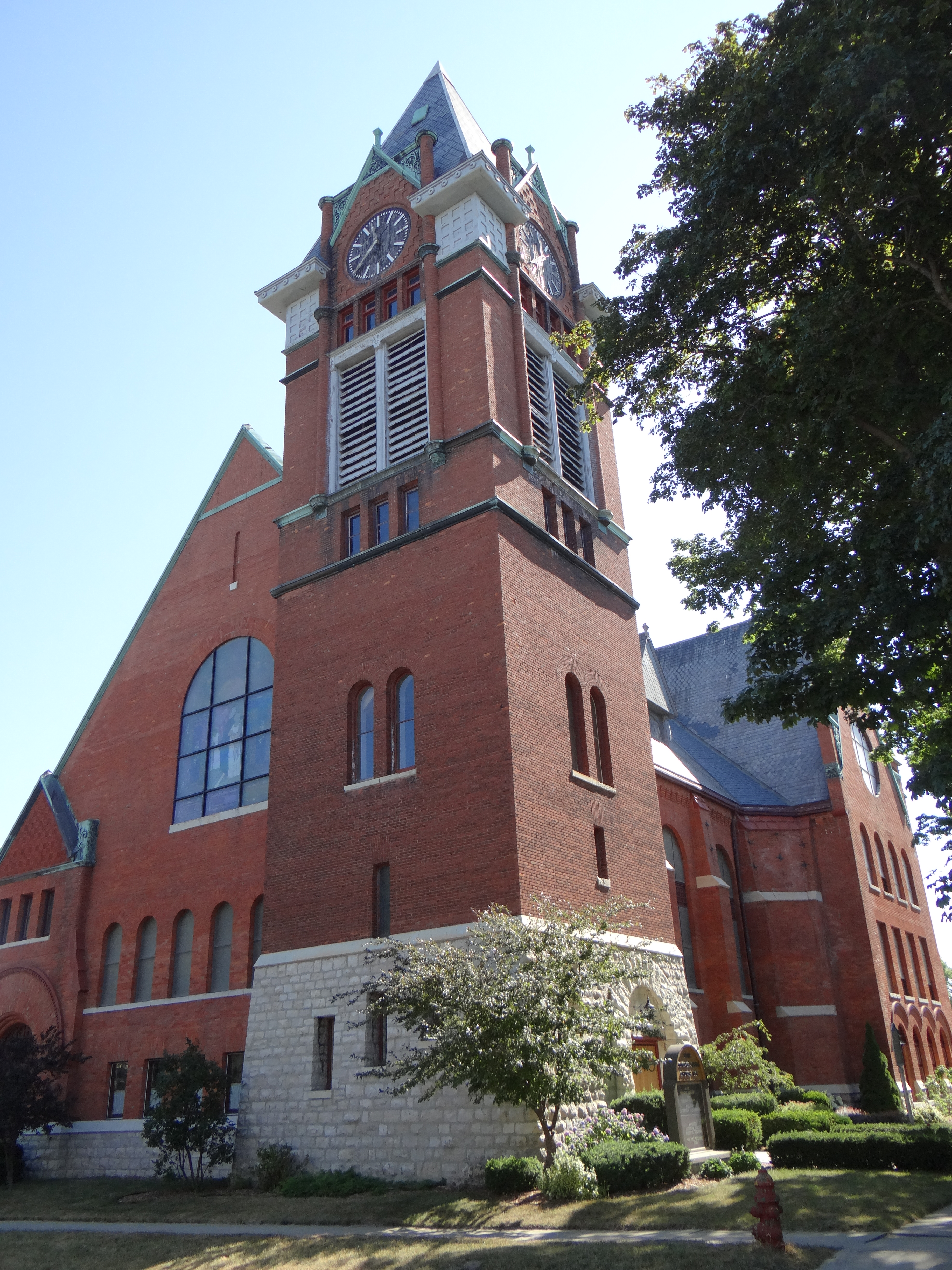 First Congregational Church of Manistee, Michigan, 412 Fourth Street. Manistee, Michigan. Designed by William Le Baron Jenney.